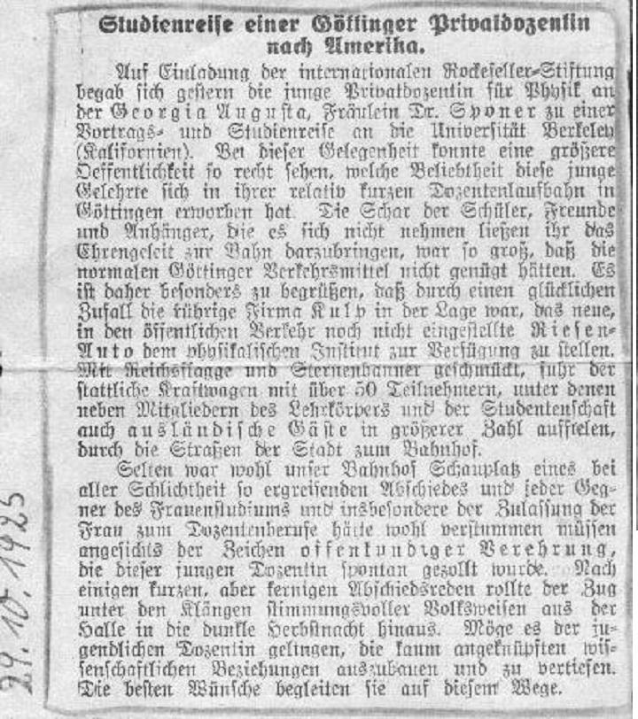 Newspaper article to the educational trip of Hertha Sponer, 1925 at Göttingen (wording by physicist of Göttingen).